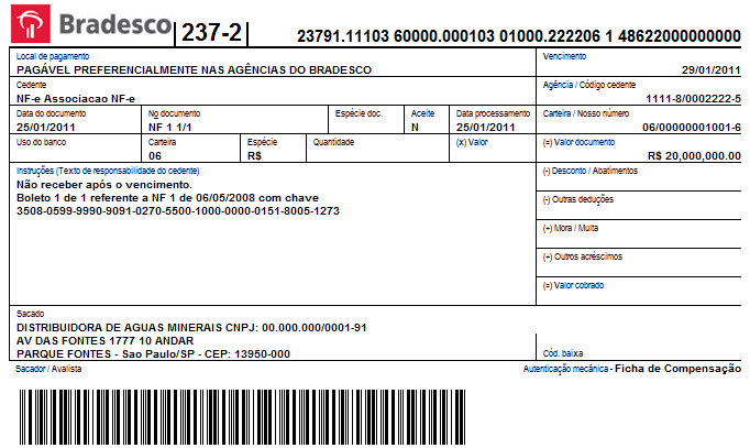 Foto of a Brazilian "Boleto Bancário" ( a kind of bill which any citzen or company can generate, provided that they have an agreement with the bank )